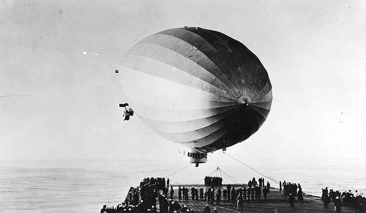 USS Los Angeles (ZR-3) landing on USS Saratoga (CV-3), 27 January 1928. Note lines used to walk the airship forward from the aircraft carrier's stern.